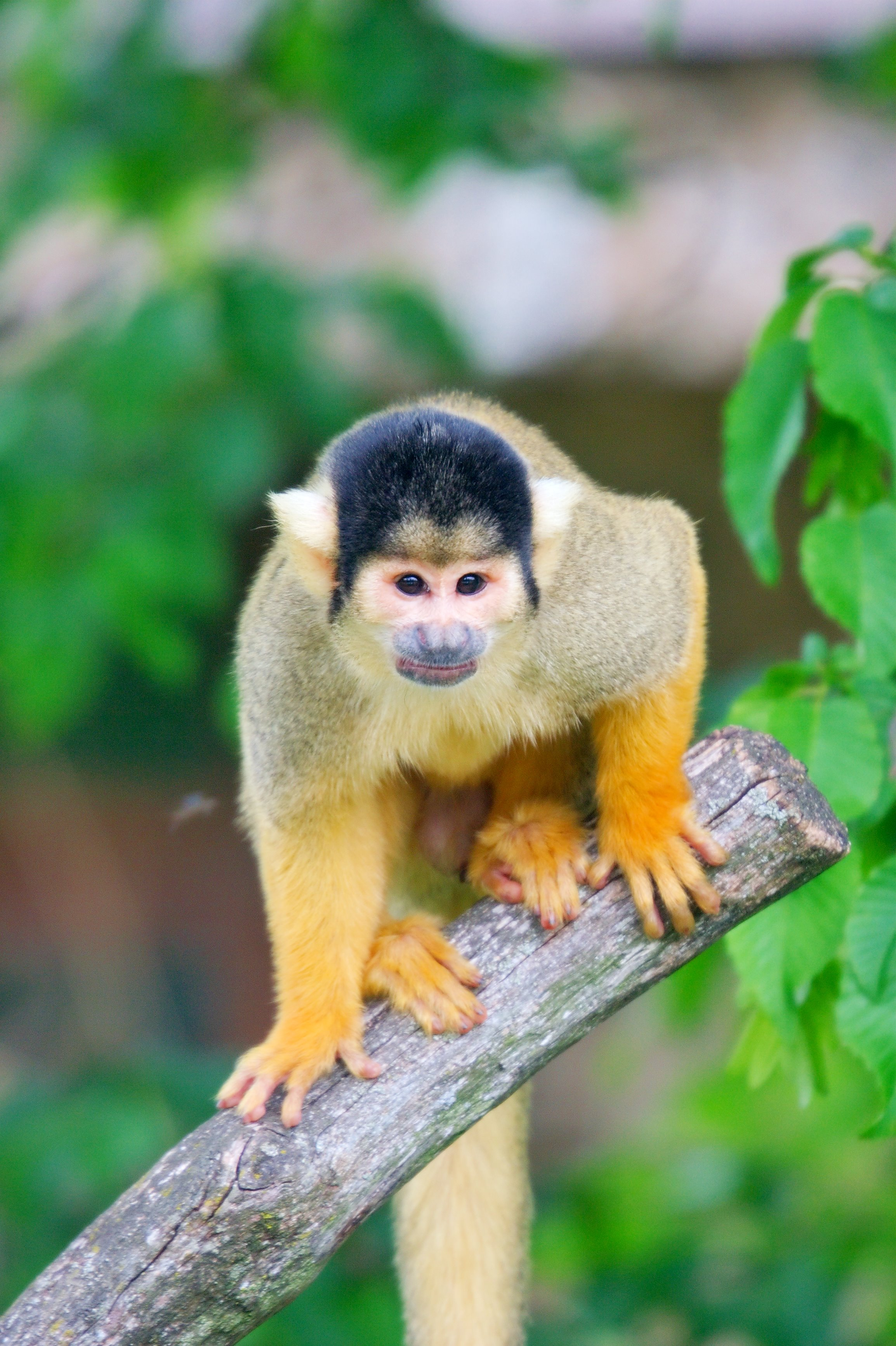 Squirrel monkey